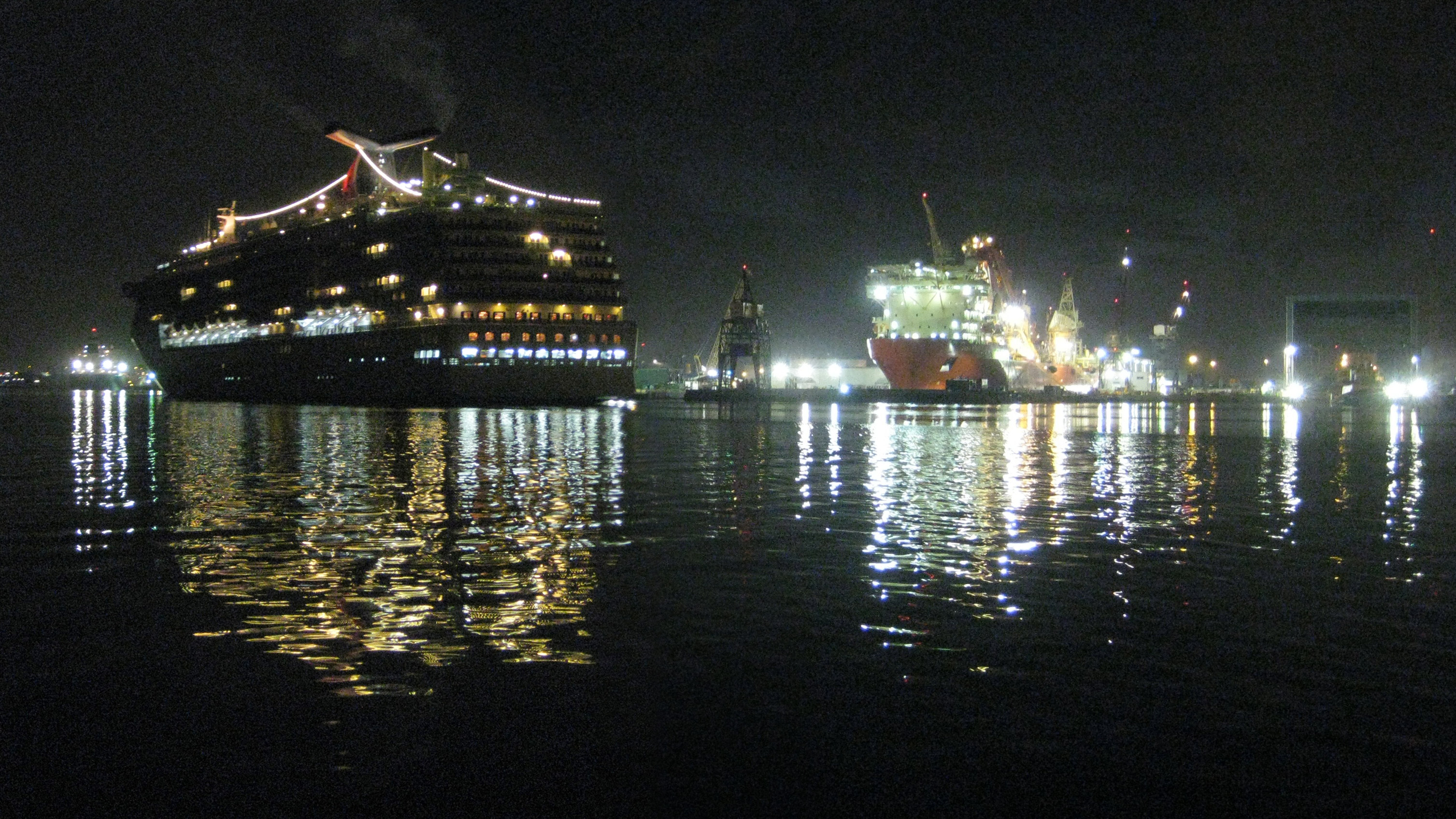 The MS Carnival Legend enters the Port of Tampa's Sparkman Channel in the darkness of the early Florida morning, passing the CSO Deep Blue, which is in drydock at Tampa Ship, LLC.